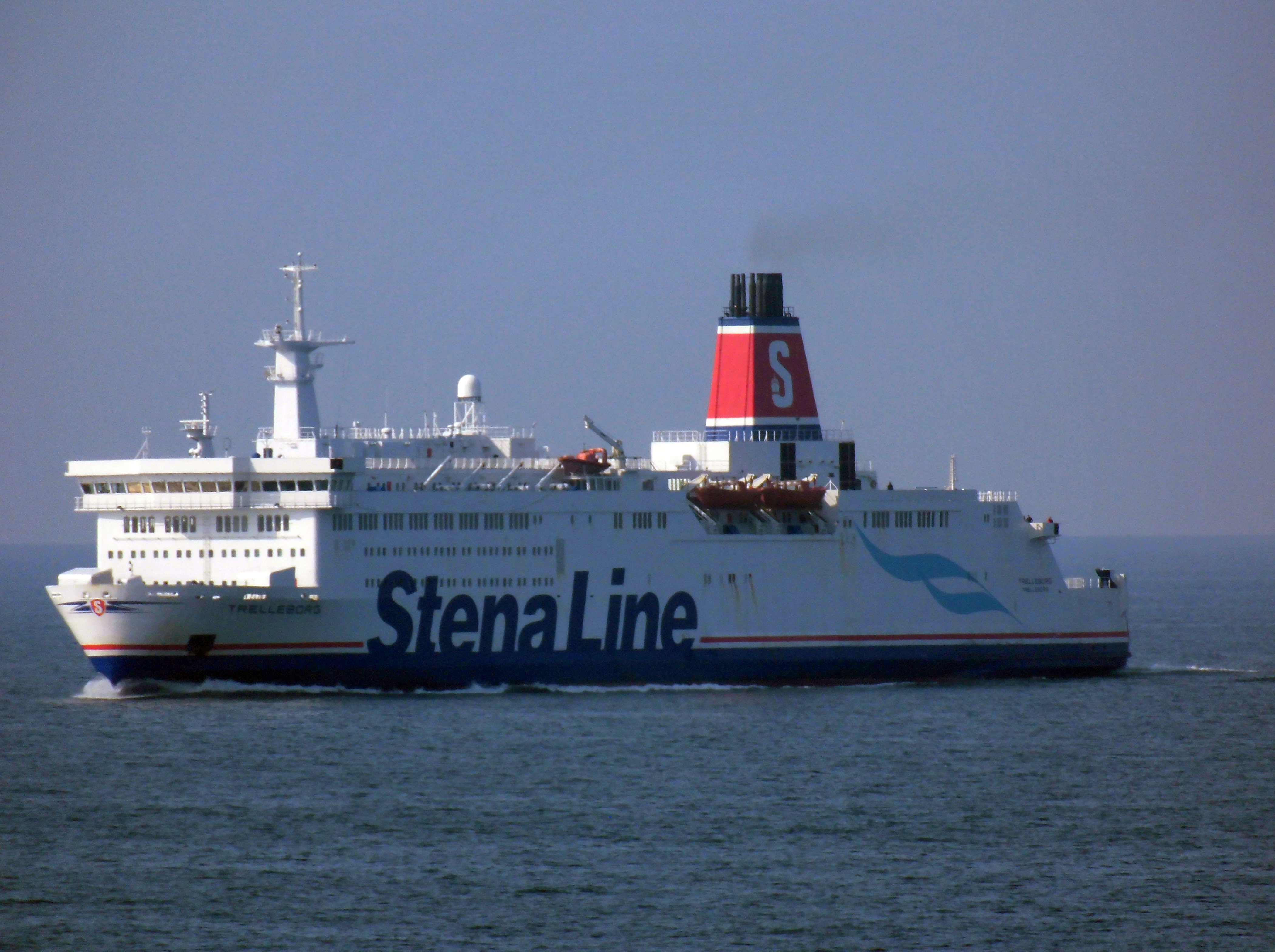 Fährschiff Trelleborg auf der Ostsee 2013